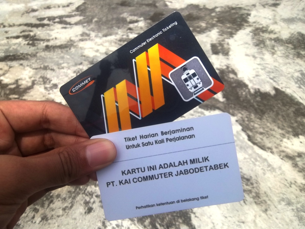 Multi trip (black) and single trip (white) ticket of KA Commuter Jabodetabek